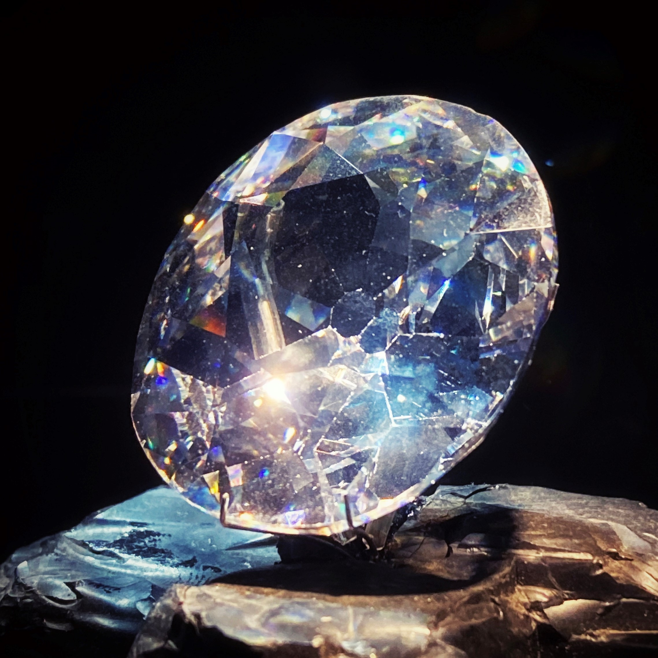 Replica of the Koh-i-Noor diamond at Prince of Wales Museum of Western India, Mumbai